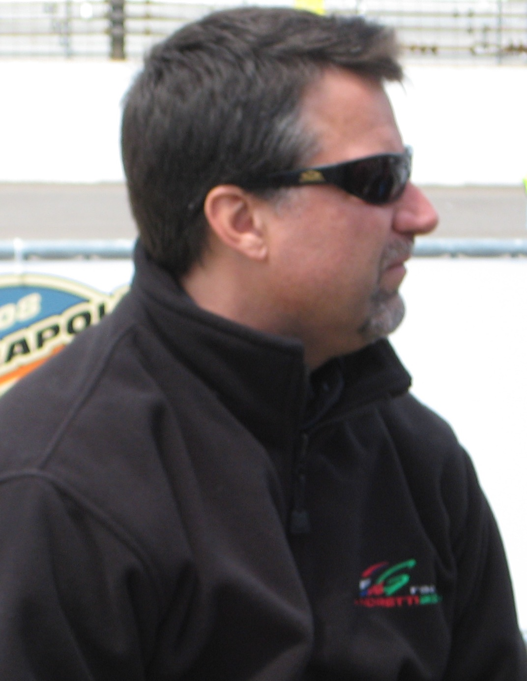 Andretti Autosport (formerly Andretti Green Racing) Owner Michael Andretti at the Indianapolis Motor Speedway for Bump Day for the 2008 Indianapolis 500 on Sunday, May 18, 2008.